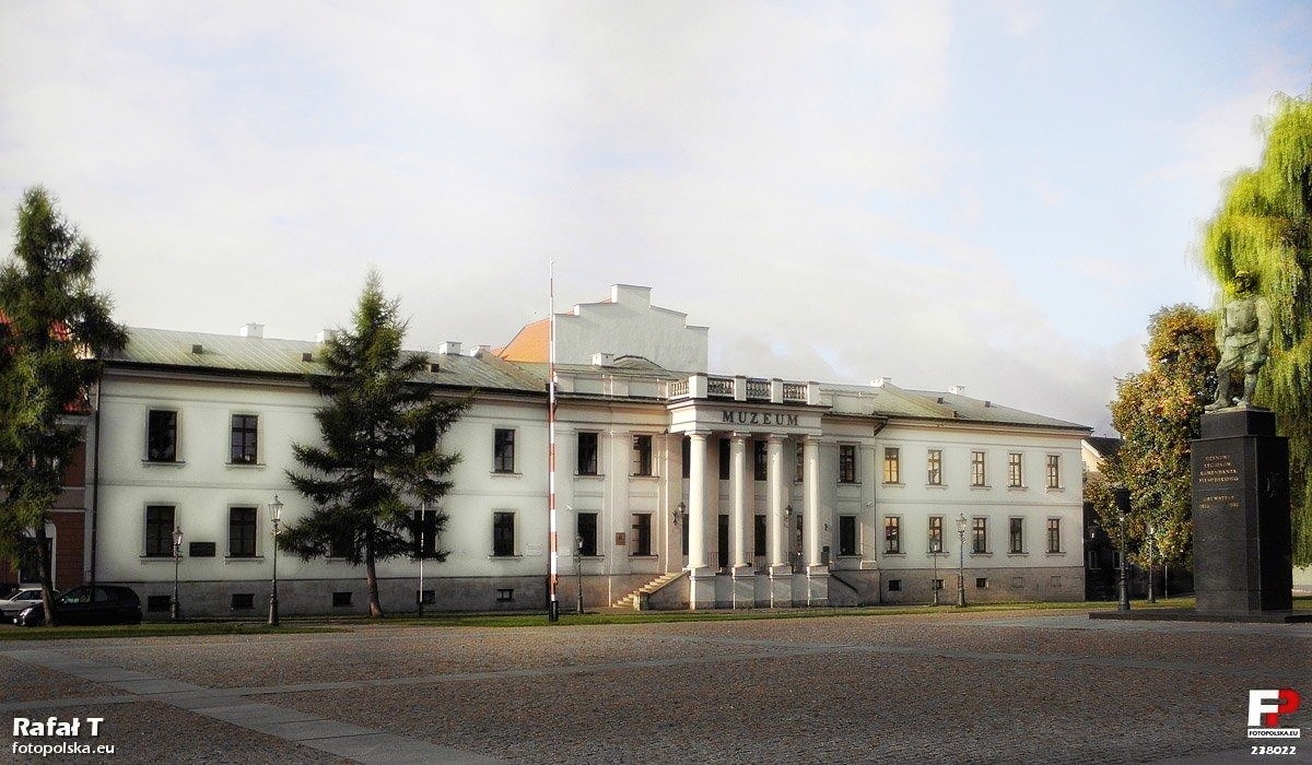 Priarist College in Radom